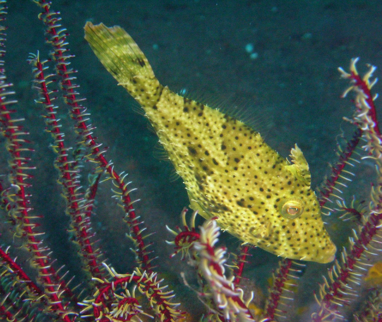 Pseudomonacanthus peroni (not Acreichthys tomentosus as the Flickr description states)